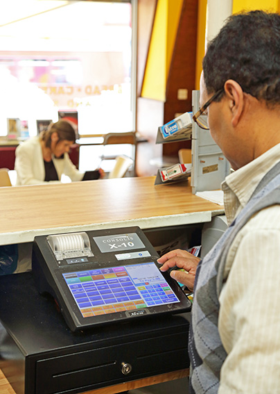 The X10 is use in a London delicatessen. A powerful yet easy to use replacement of the dumb cash register.